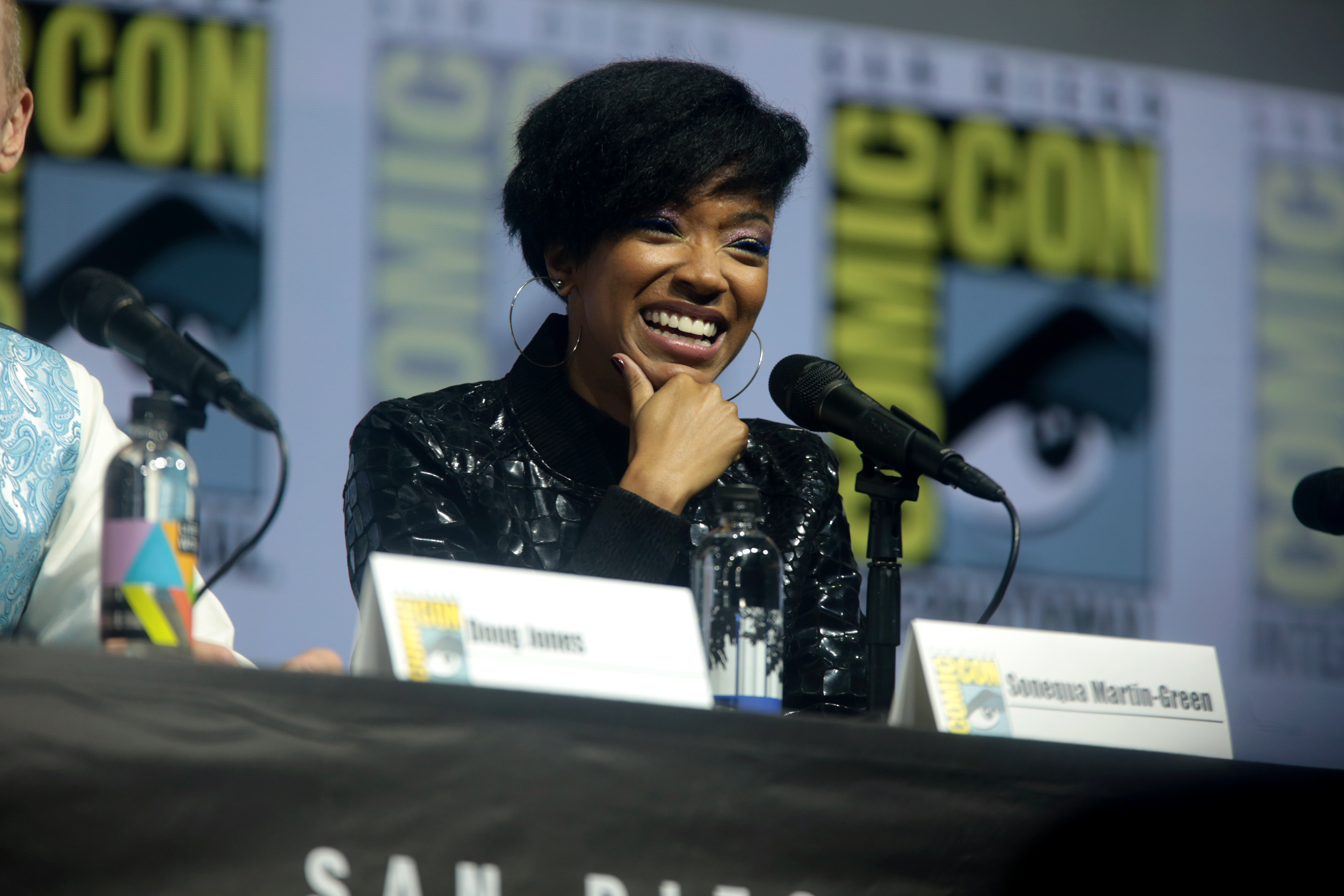 Sonequa Martin-Green speaking at the 2018 San Diego Comic Con International, for "Star Trek: Discovery", at the San Diego Convention Center in San Diego, California.